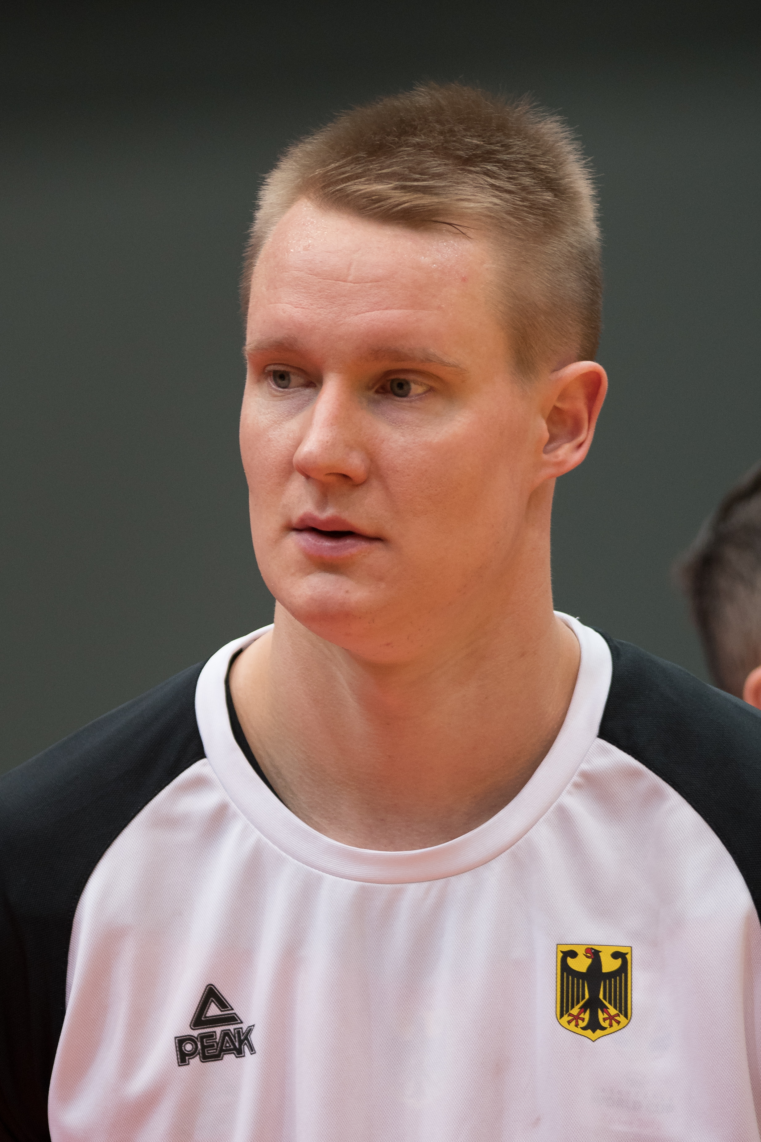 FIBA World Championship Qualification 2019 Austria vs. Germany 2017-11-27 Multiversum Schwechat. Picture shows Robin Benzing (GER)